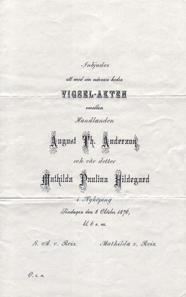 Invitation to Anderzon-von Reis Wedding, as released by FamSACPlace: Nyköping, Sweden